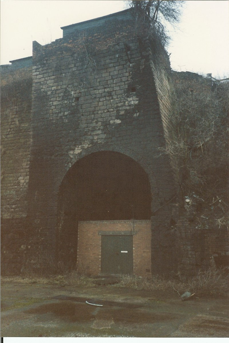 Butterley Company blast furnace dating to 1790. Furnace exposed after demolition of foundry buildings in 1986.